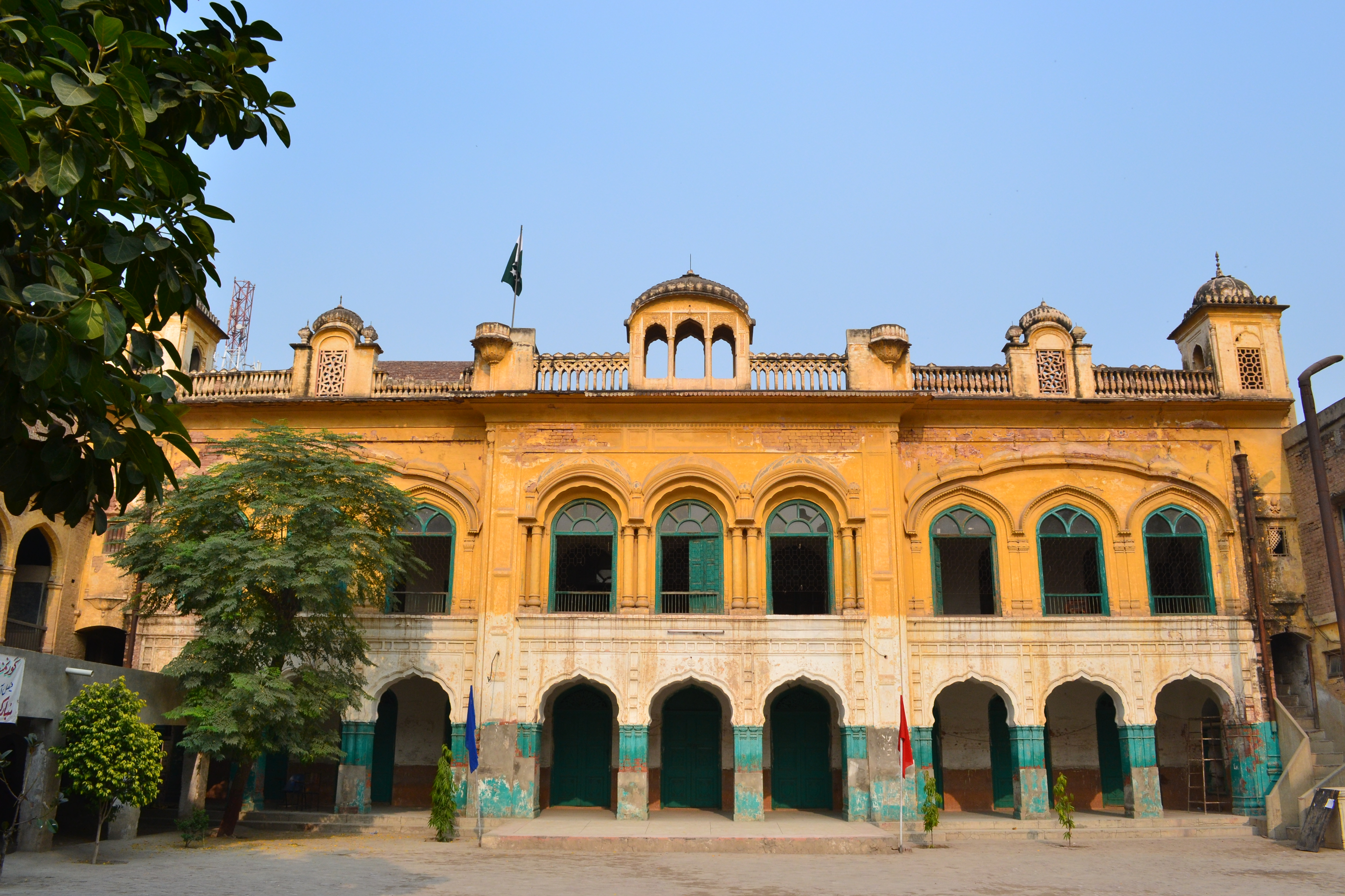 Gurdwara-School inner front